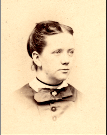 Image of Christine Ladd-Franklin